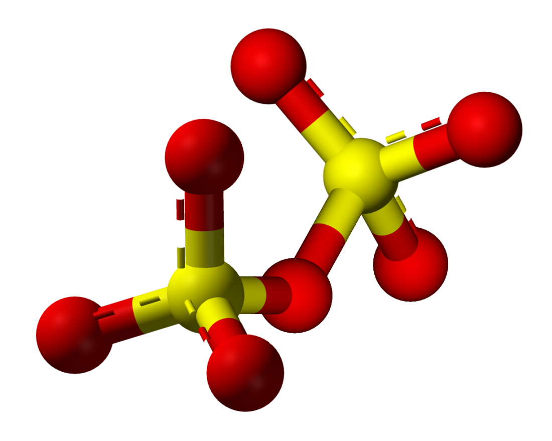 Pyrosulfate-ion molecule model